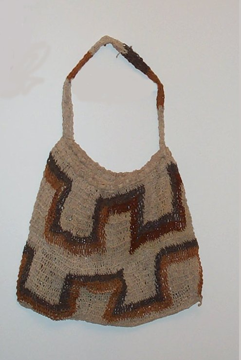 A bilum string bag from Papua New Guinea. Picture taken by RichardAmes 08:49, 19 Jul 2004 (UTC)